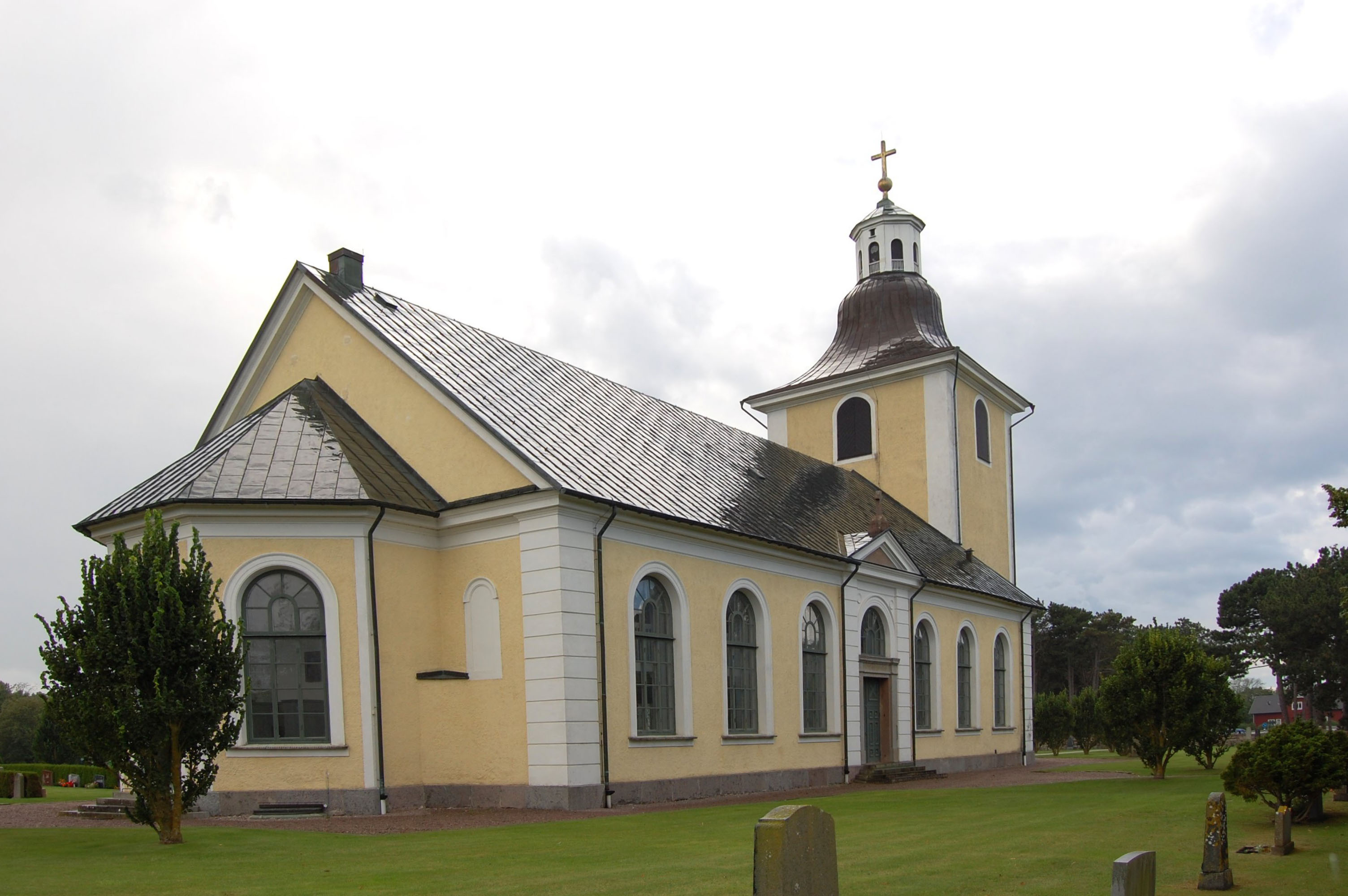 Högby Church.¨The Church of the East.